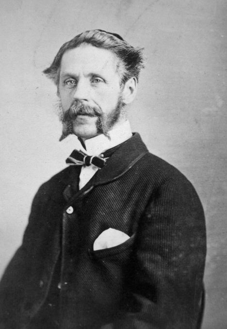 Photograph, Stanley Clarke Bagg, Montreal, QC, 1863, William Notman (1826-1891), Silver salts on paper mounted on paper - Albumen process - 8.5 x 5.6 cm